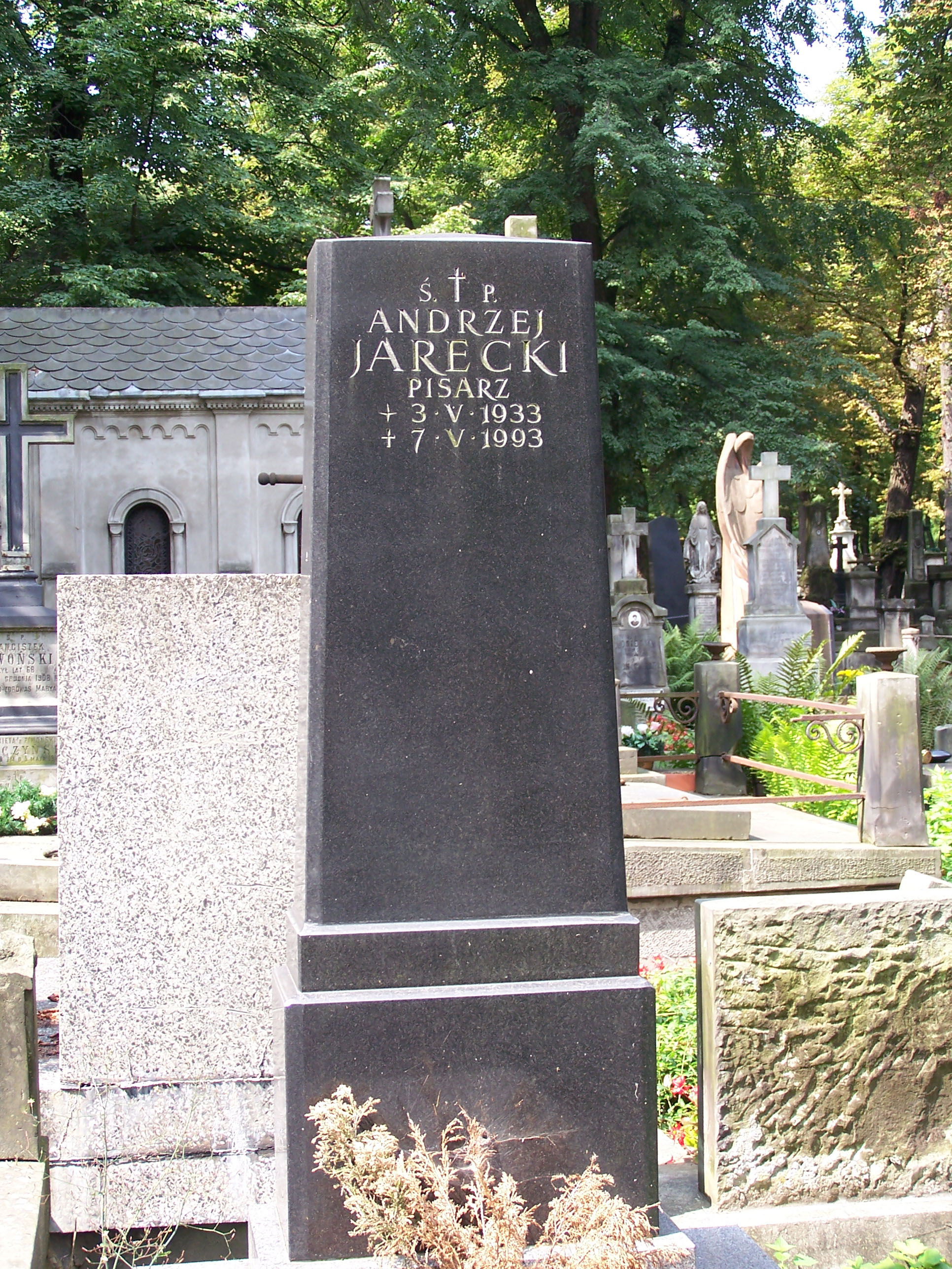 Grave of writer Andrzej Jarecki at Powązki Cemetery in Warsaw, Poland